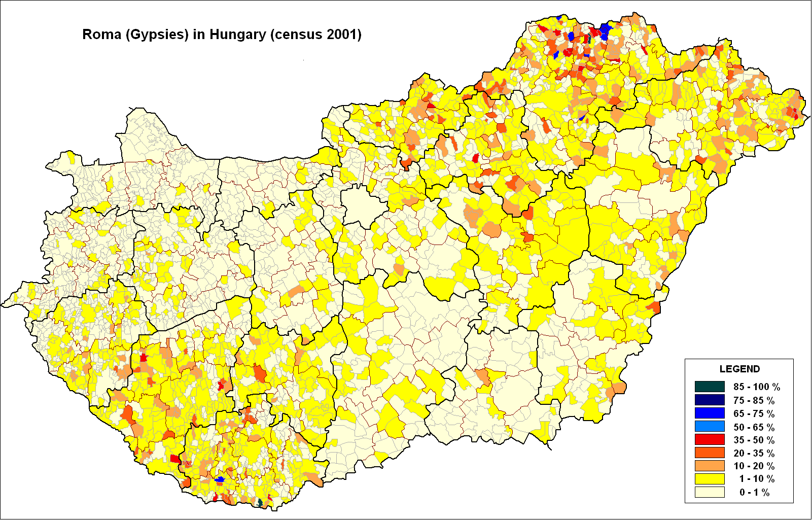 The distribution of the Roma minority in Hungary (census 2001)